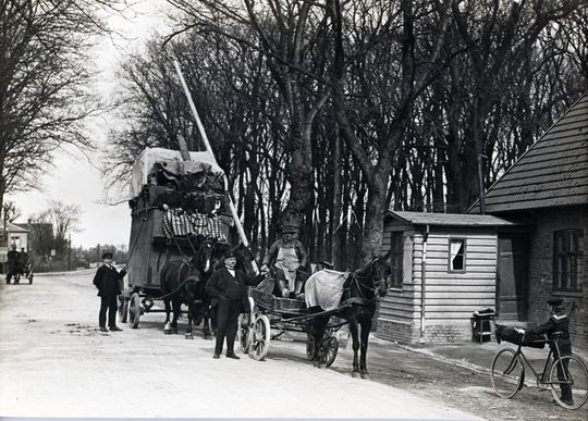 The boom gate at Emdrup Lake on Lyngbyvej in Copenhagen, Denmark on 31 May 1915, one day before the fee for using the road was abolished.